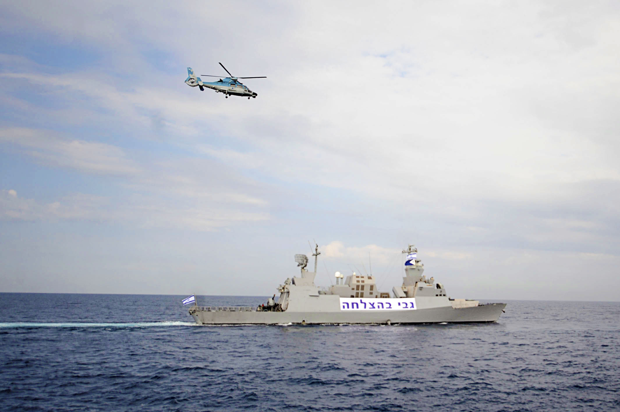 January 19, 2011. The Chief of the General Staff, Lt. Gen. Gabi Ashkenazi, visits the Israeli Navy as part of his final visits to all IDF branches and units. As part of his visit, Lt. Gen. Ashkenazi met with the crews of missile boats and set sail with them, after which he continues aboard a "Morena" boat to the Naval Commando Unit base. Pictured: A Eurocopter AS565 Panther ("Atalef") helicopter flying above a "Saar 5" Navy corvette, which bears a banner saying "Good Luck Gabi". במסגרת סבב ביקורי הפרידה מצה"ל, ביקר היום (ד') הרמטכ"ל, רב אלוף גבי אשכנזי, בבסיסי חיל הים. כחלק מהביקור נפרד הרמטכ"ל משייטת ספינות הטילים ויצא עימם להפלגה, אחריה המשיך על גבי סירת "מורנה" אל בסיס הקומנדו הימי.